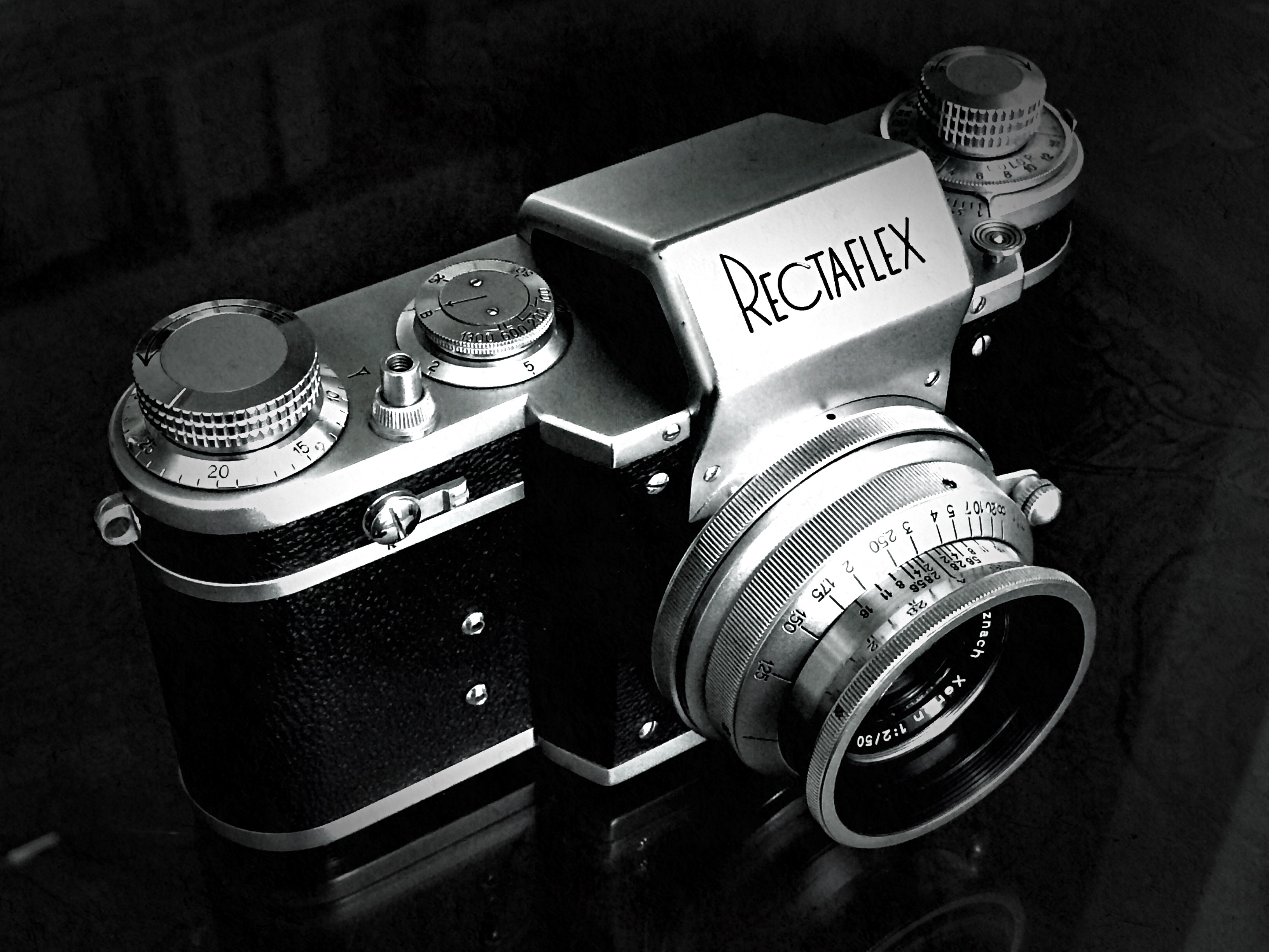 Rectaflex 1300 with Schneider Xenon 2/50